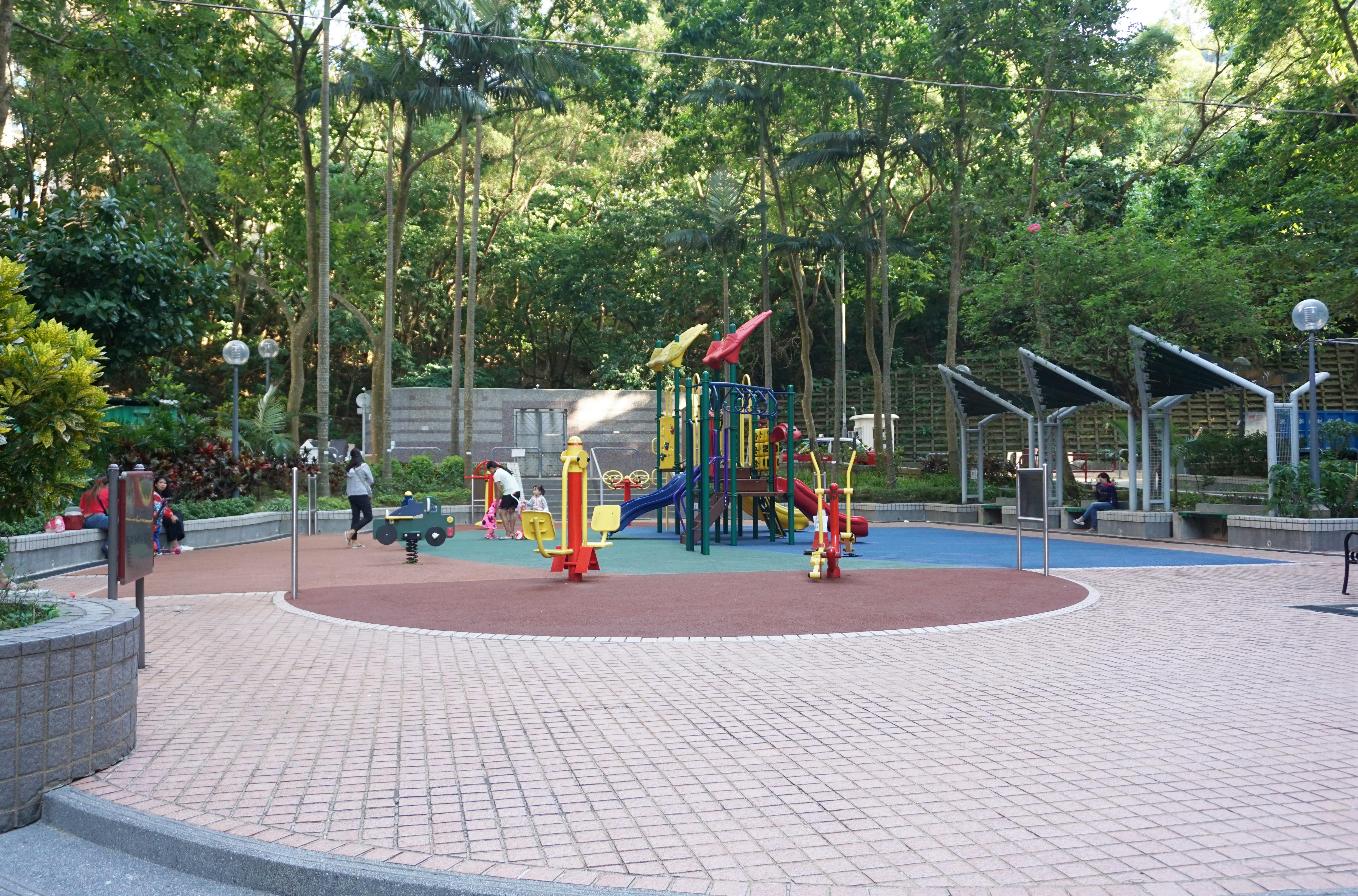 Kwong Lam Court in Siu Lek Yuen, Hong Kong.